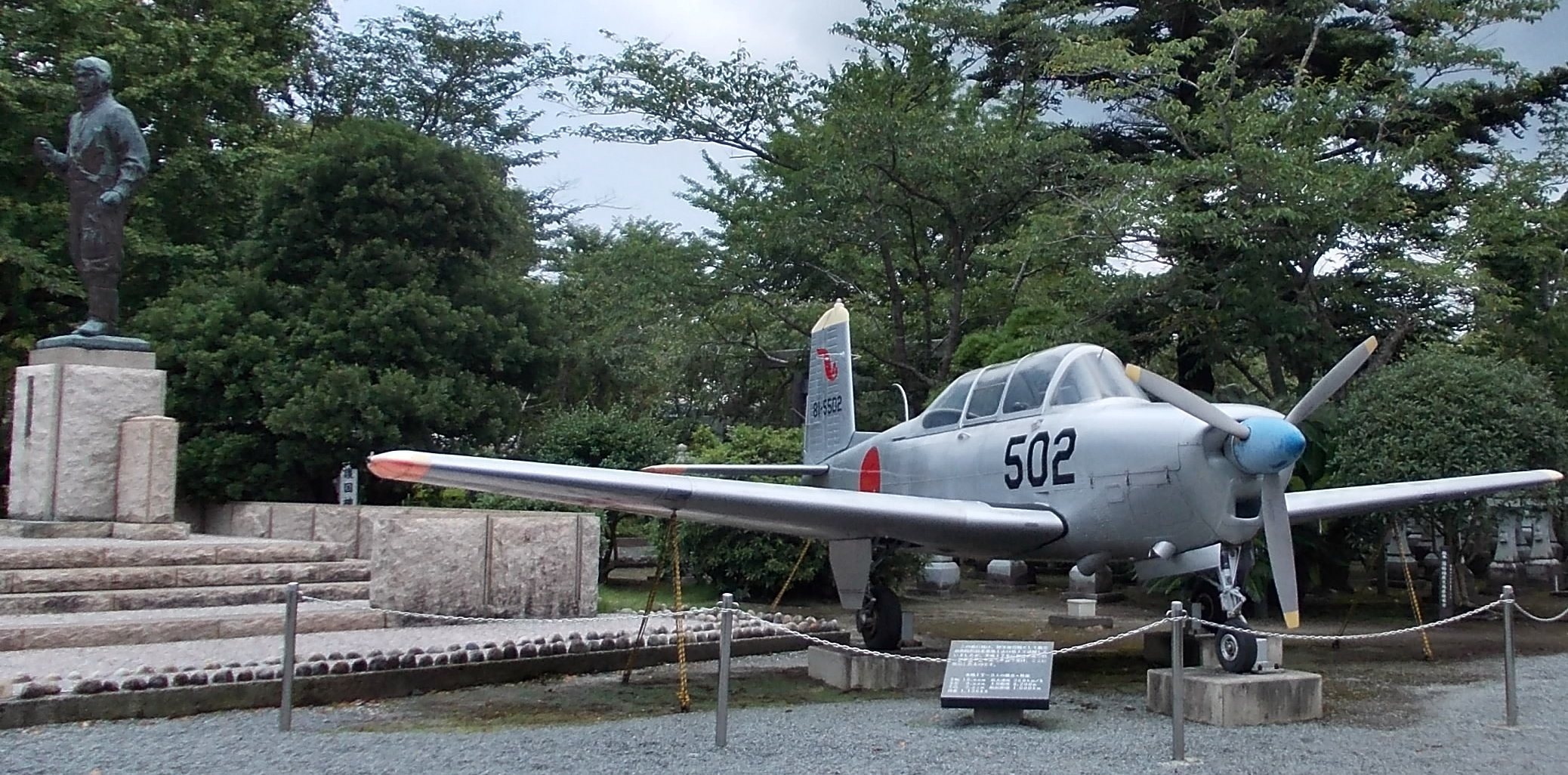 Chiran Peace Museum for Kamikaze Pilots, Minamikyushu, Kagoshima, Japan